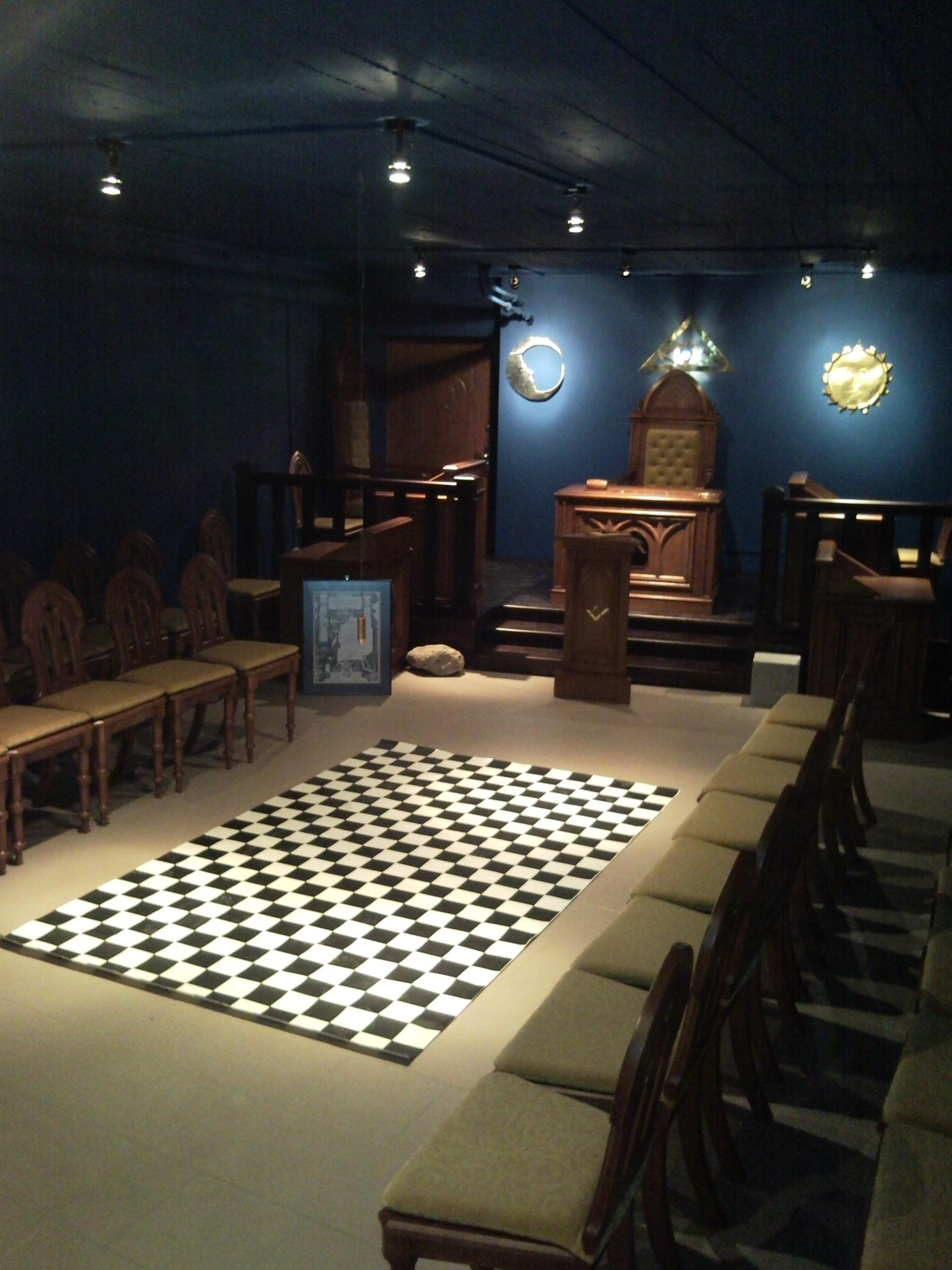 Liberal freemasonry in Warsaw